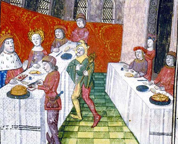 The Lancelot romance, France, 15th century.